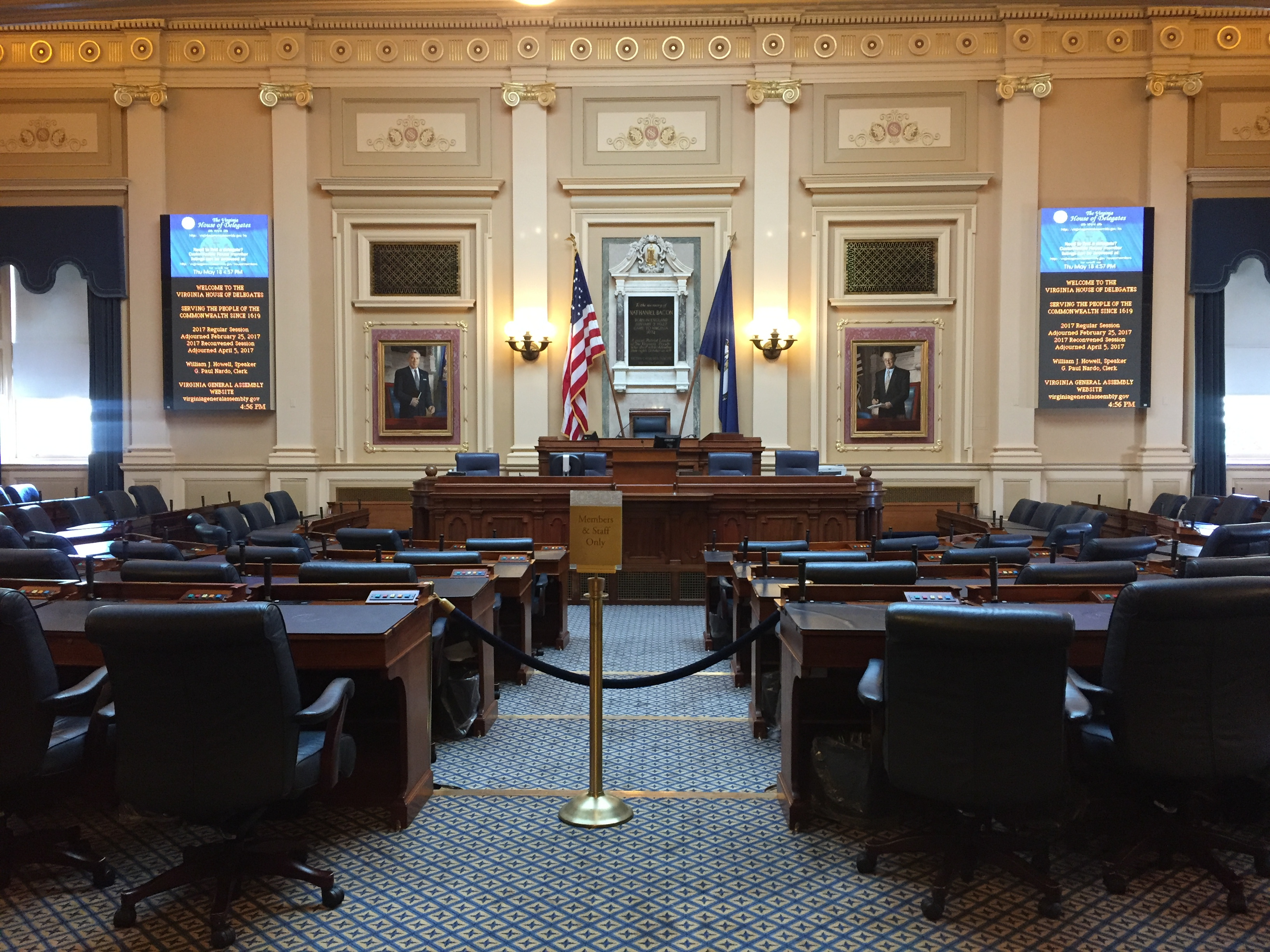 Virginia House of Delegates chamber in the Virginia State Capitol in 2017